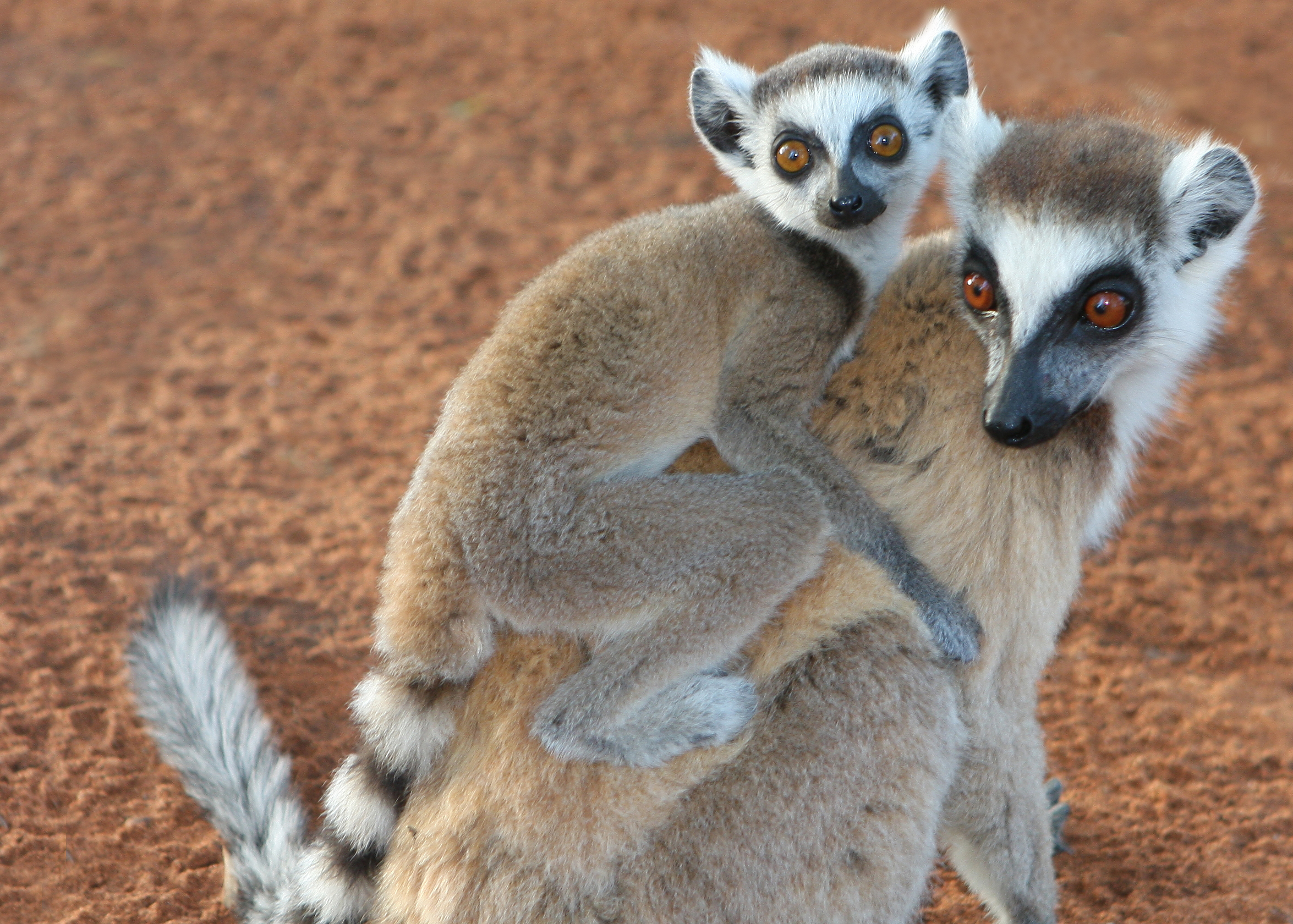 Ring-tailed lemur (Lemur catta) at Berenty Reserve